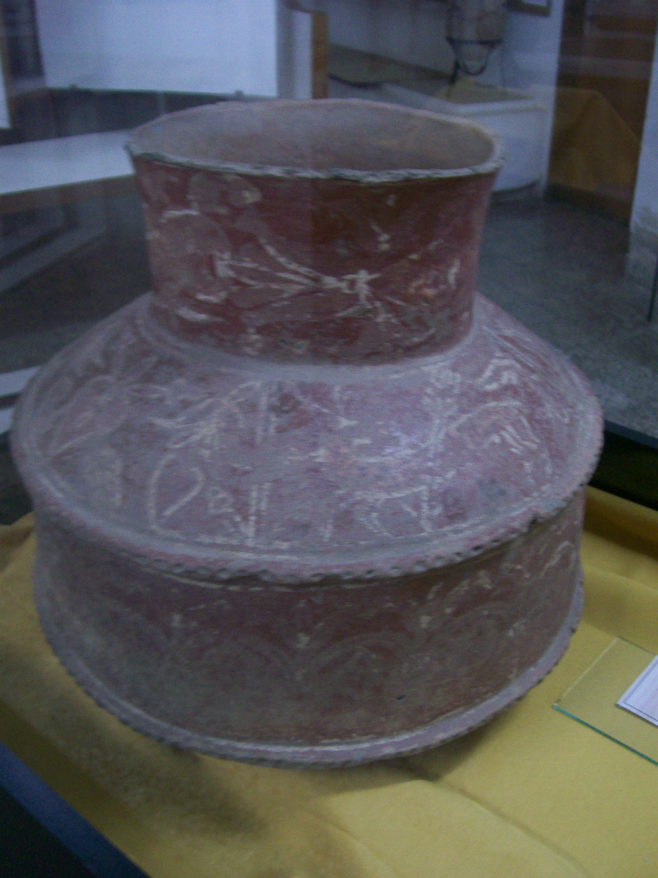 Complete vase found in Ruins of km 75 in Chaco province, Argentina. Vase was described by Eldo Morresi as a very good sample of guarani indian ceramics, and it's one of the few complete objects taken out in archaeological excavation. It is exhibited on Antropological Museum in Facultad de Humanidades, Universidad Nacional del Nordeste (Resistencia, Chaco, Argentina). Their sketches are religious.